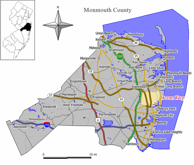 Source: Jim Irwin